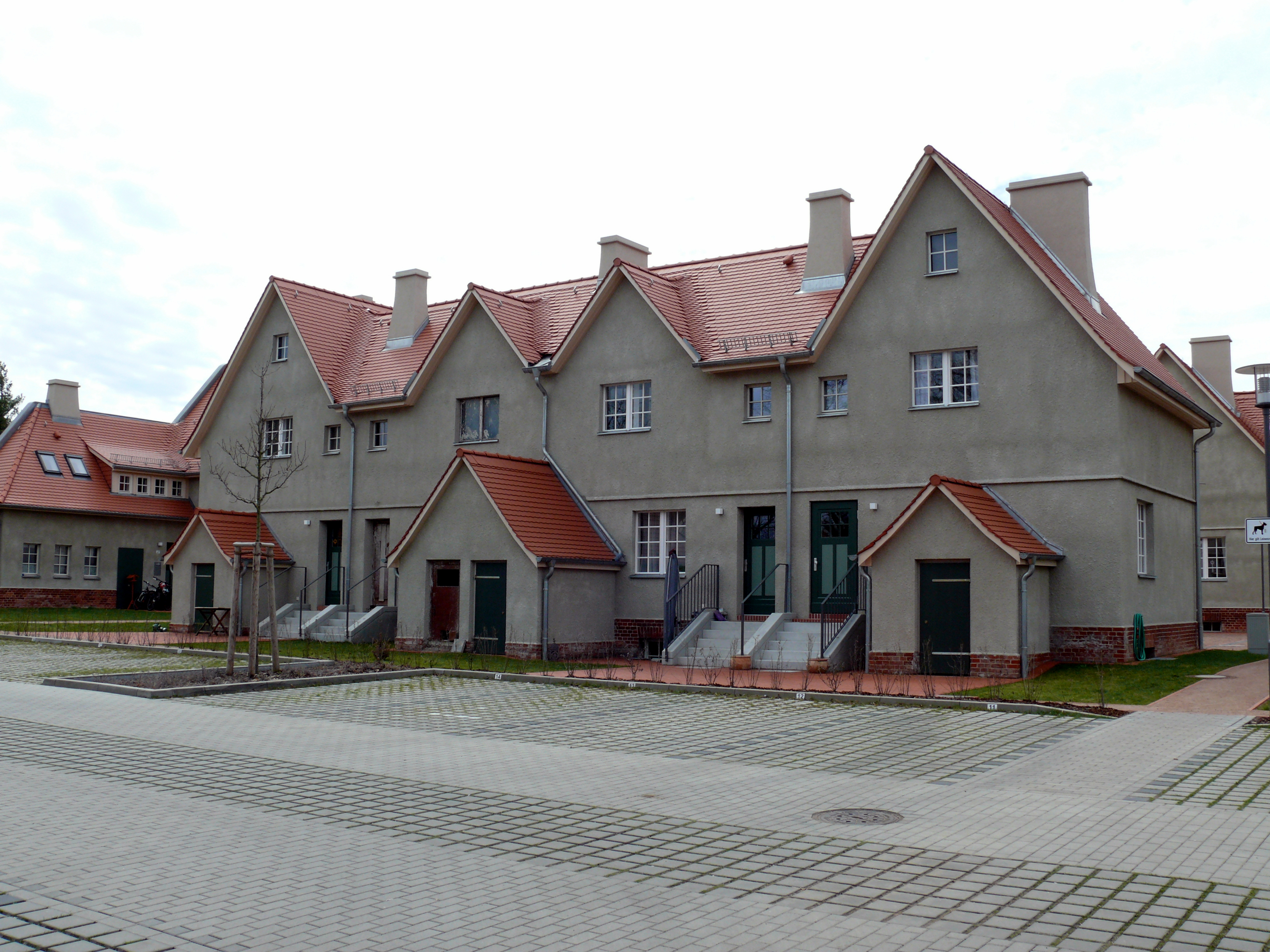 Berlin-Altglienicke Preußensiedlung